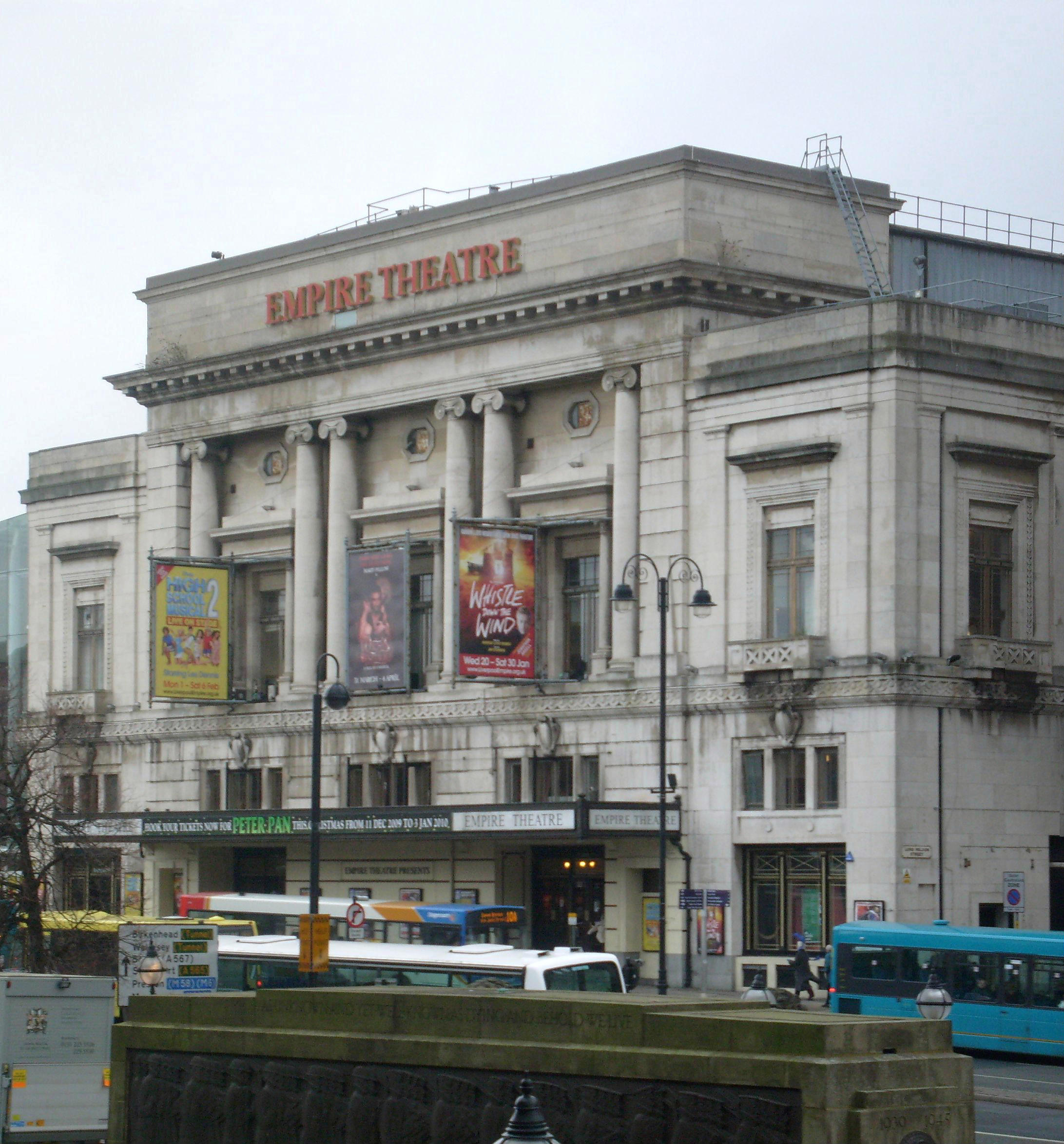 Empire Theatre, Liverpool